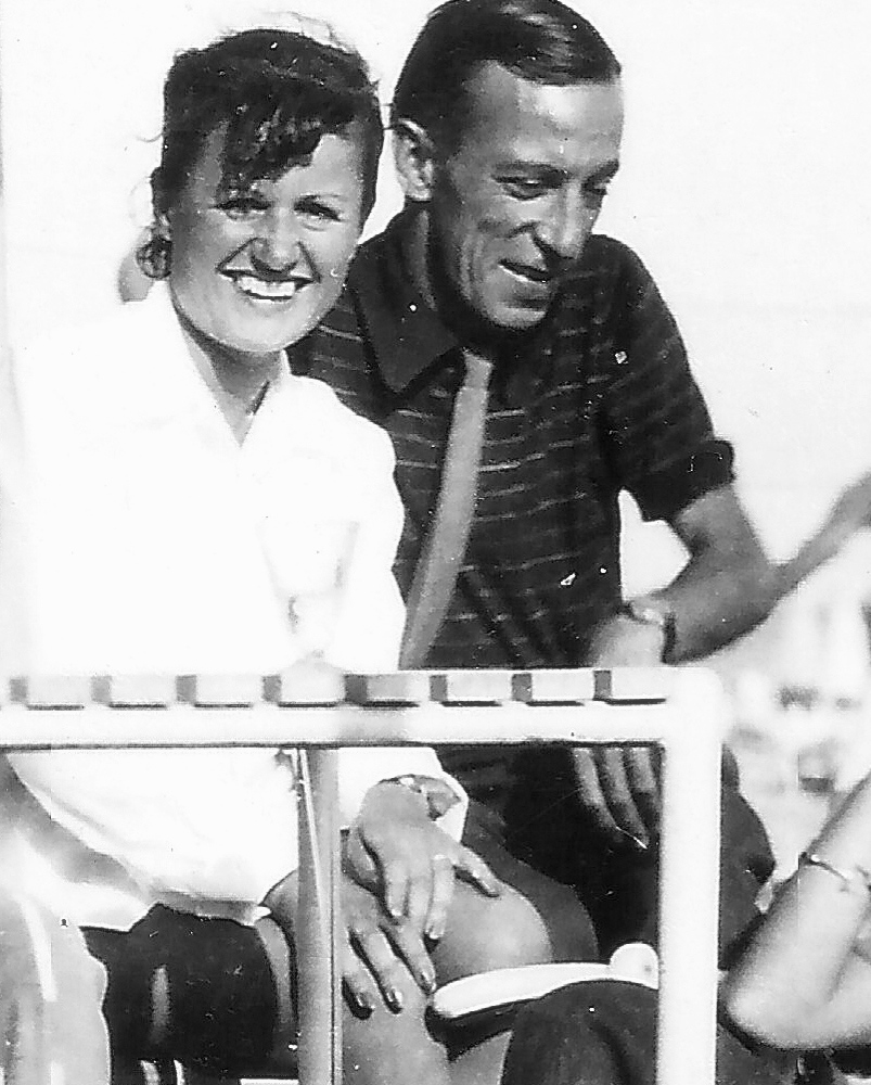 Detail taken from File:Pause tournage Fandango.jpg Break during production of Fandango, Raymond Bussières, Annette Poivre, Cannes, 14th June 1948